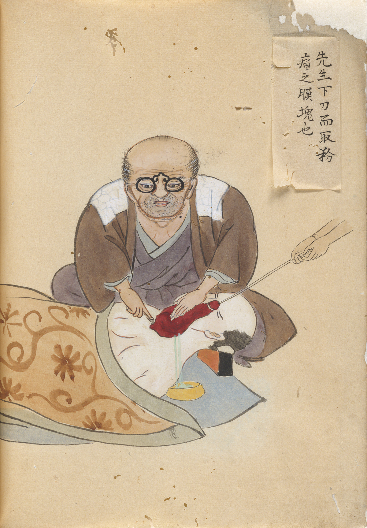 This is a picture from Hanaoka Seishu's work, "Surgical Casebook". It is a part of the National Library of Medicine's "Turning the Pages" project, which digitizes older medical texts that should no longer be handled in physical form